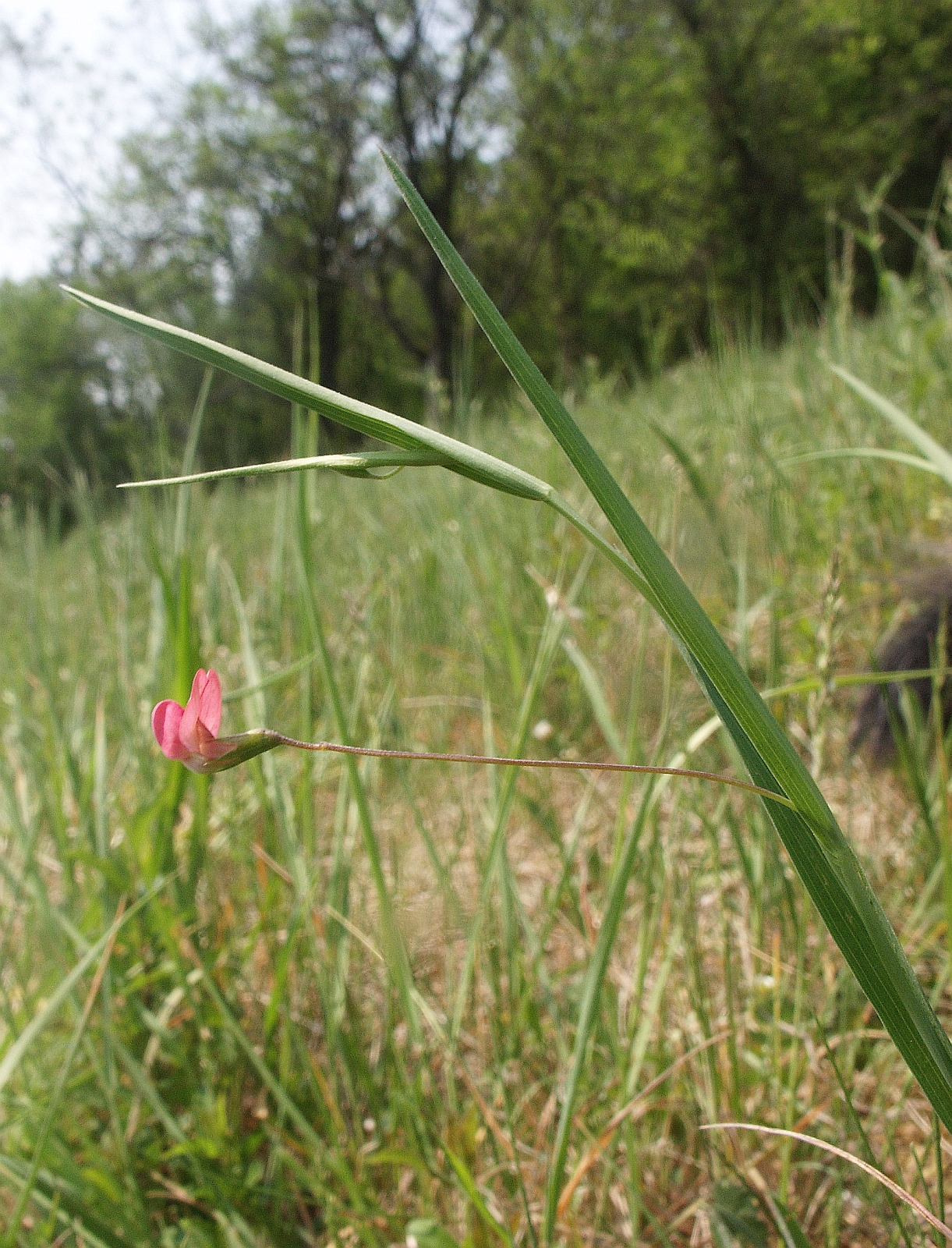 Lathyrus nissolia, Tauberland, Germany